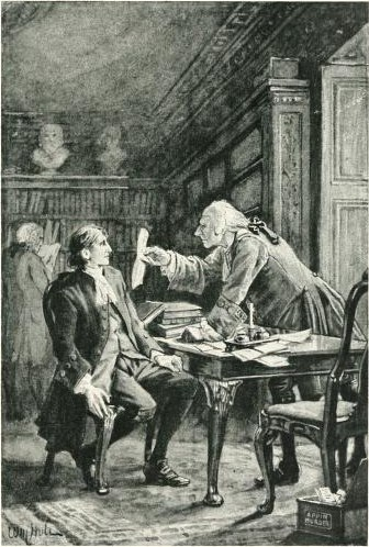 Illustration from "Catriona"